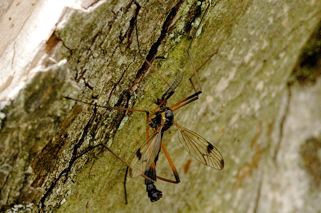 Picture taken in Commanster, Belgian High Ardennes . Species: male Dictenidia bimaculata